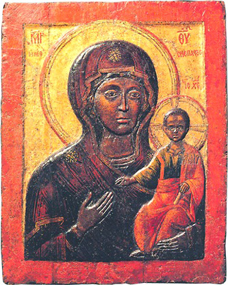 Vlahernskaya icons in Russia